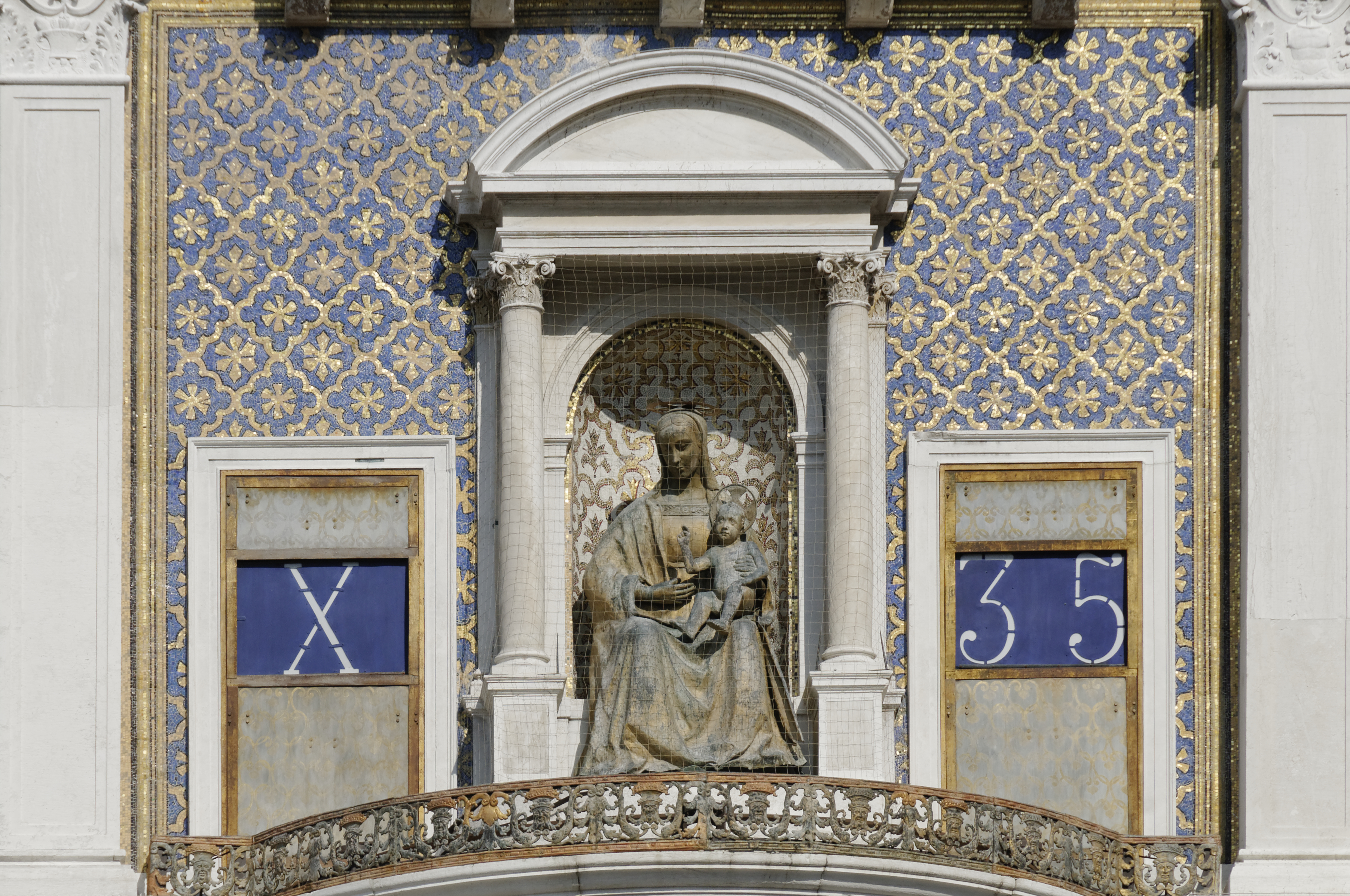 Gallery of the Torre dell'Orologio with Virgin and Child, piazza San Marco, Venice.